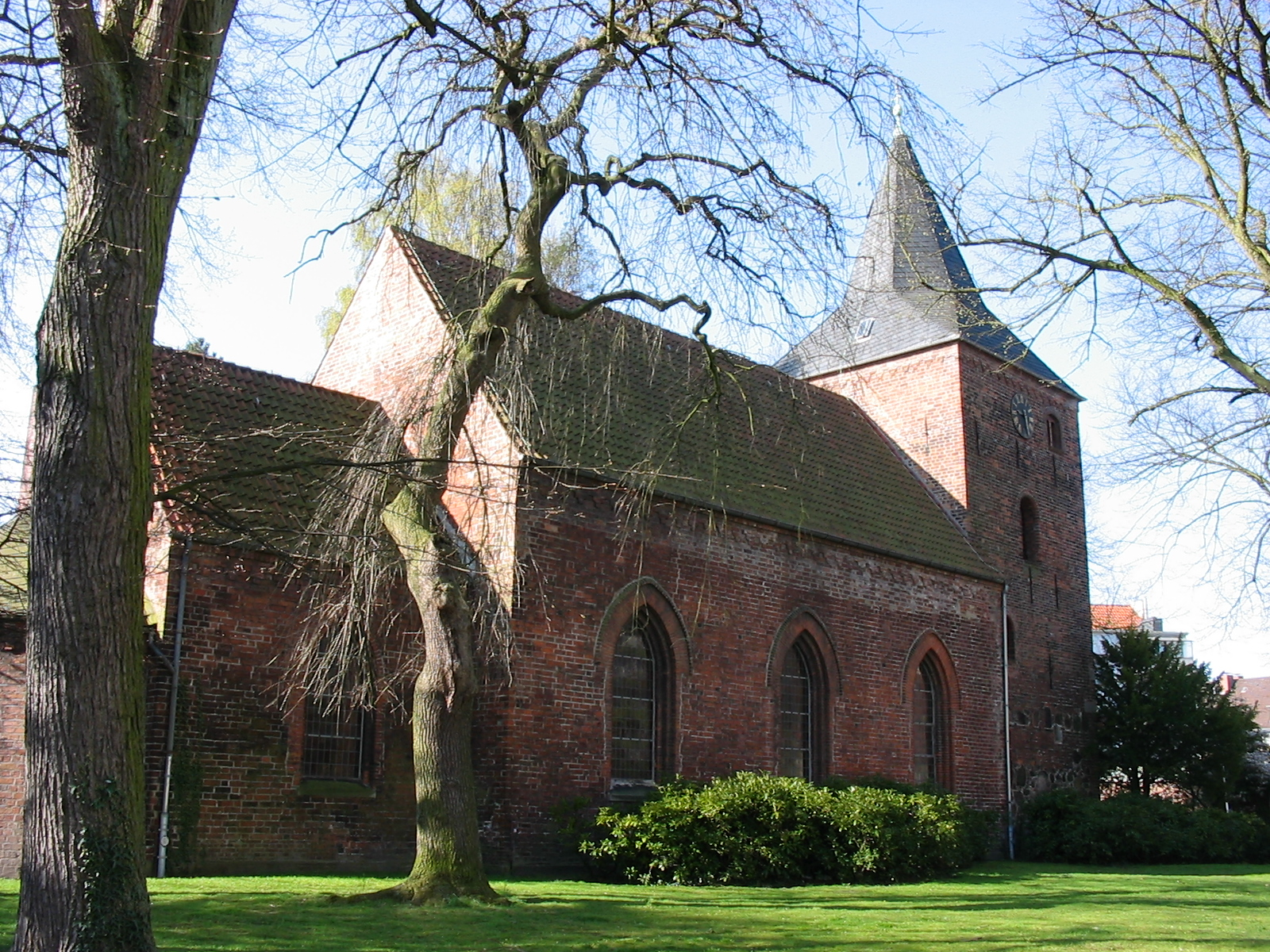 Evangelisch-lutherische Marienkirche in Bremerhaven-Geestemuende